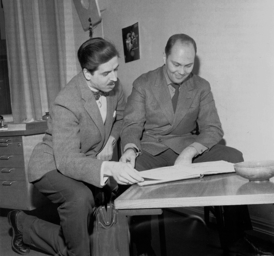 Photograph of the Finnish conductor Paavo Berglund (to the right) with the violinist Heikki Louhivuori.